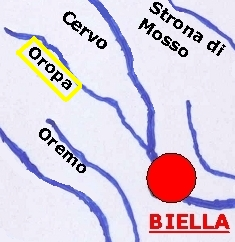 Oropa creek location (BI, Italy)